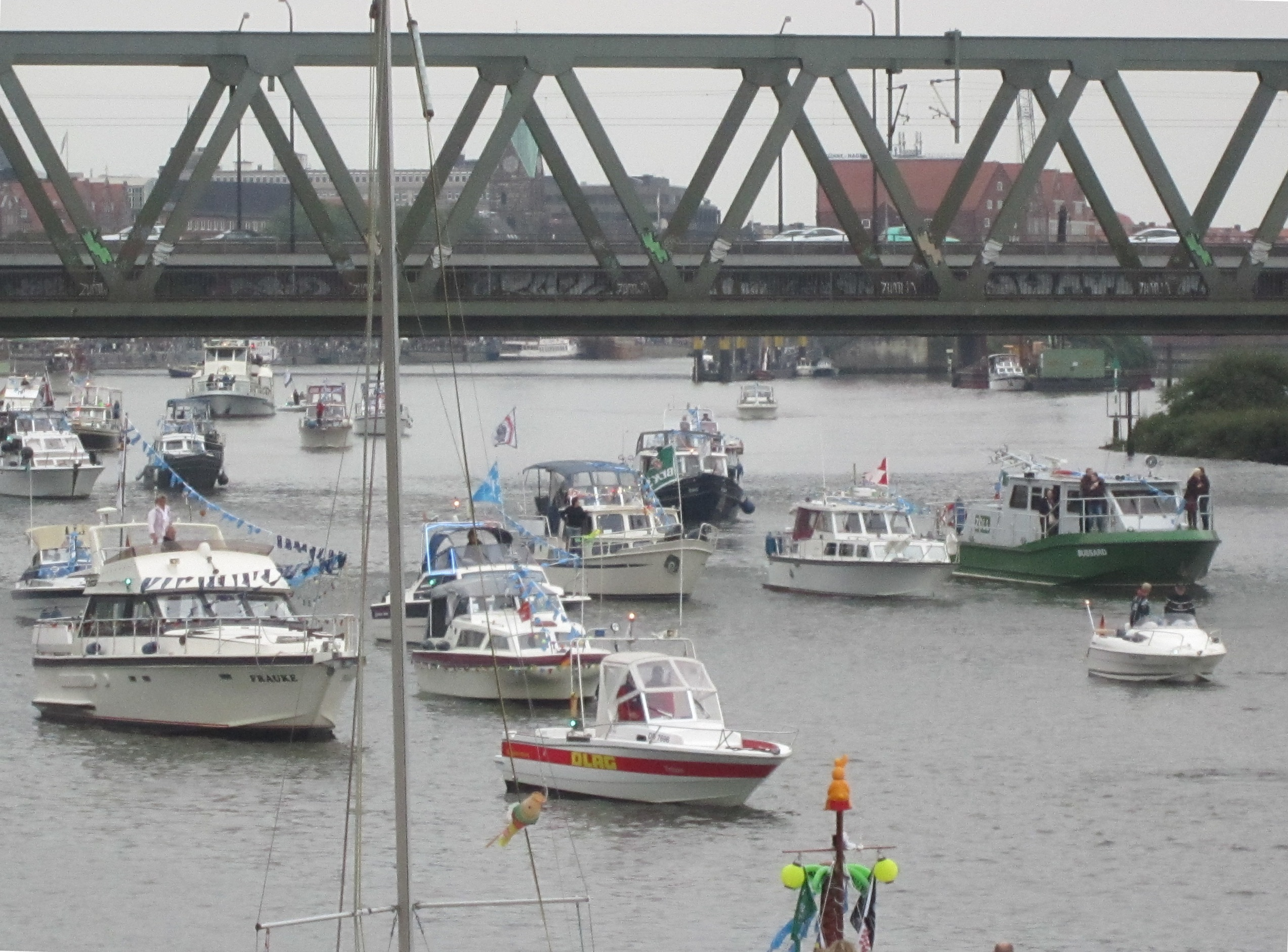 Ship parade on River Weser at Bremen during the "Maritime Week on River Weser"